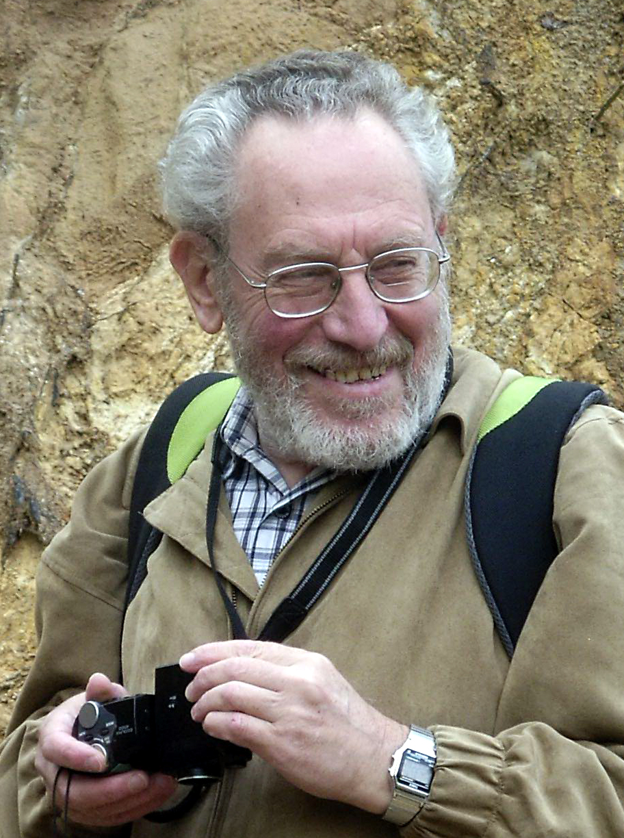 Alexandr Rasnitsyn at the amber outcrop, FossilsX3, Alava, 2007 (photo by Elena Lukashevich)